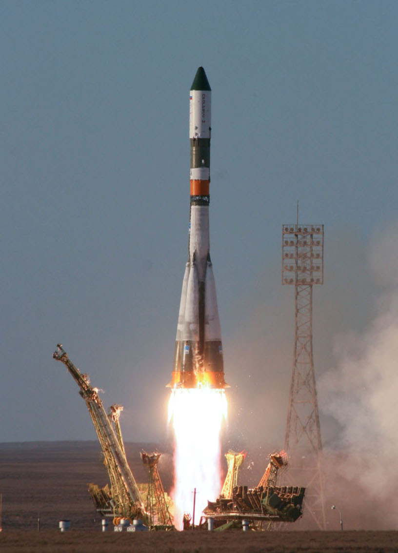 JSC2011-E-056981 (21 June 2011) --- The Progress 43 spacecraft launches from the Baikonur Cosmodrome in Kazakhstan, headed for the International Space Station.